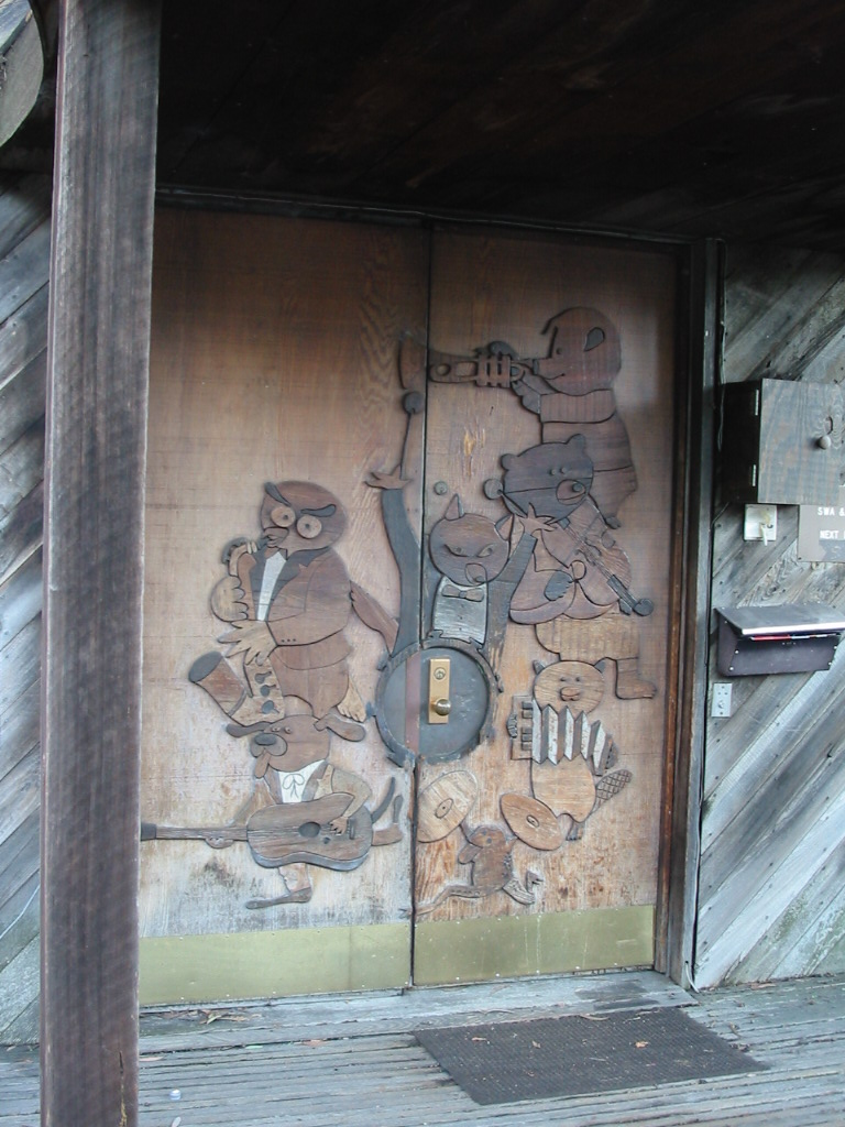 Snapshot of the Record Plant, a.k.a. The Plant, a recording studio in Sausalito, California. Photo of the front door of the building, showing animals playing instruments carved into the doors.